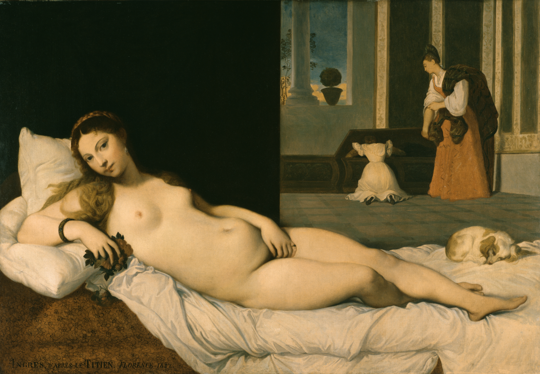 Ingres was deeply inspired by ancient Greek and Roman art as well by Italian painting of the High Renaissance. Although he spent much of his career in Rome, he resided in Florence from 1820 to 1824, where he painted this copy of Titian's "Venus of Urbino" (1538), from the collection at the Pitti Palace. "The Venus of Urbino" had inspired generations of artists. Ingres's version is the same size as the original. He intended it to serve as a model for his close friend, the sculptor Lorenzo Bartolini (1777-1850), who was creating a sculpture based on the same subject.